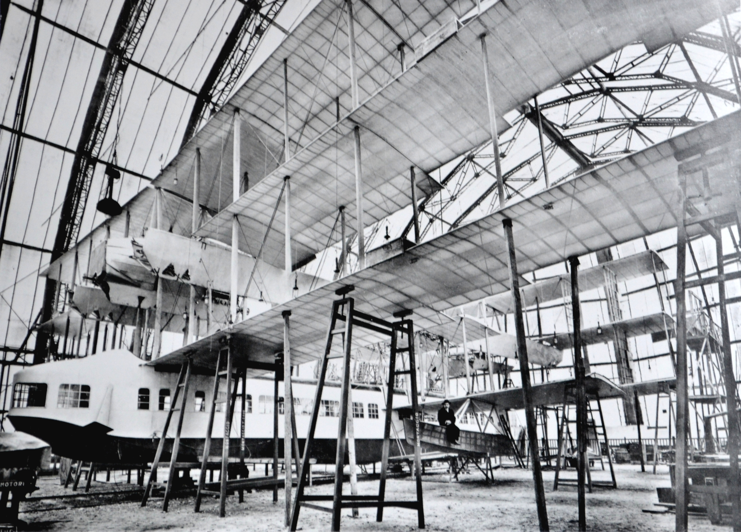 Caproni Ca.60 experimental flying boat under construction in Sesto Calende, 1921. The Caproni Ca.60, or Transaereo, was a nine-wing flying boat intended to be a prototype for a 100 passenger trans-atlantic airliner. It featured eight engines and three sets of triple wings. In this photo, designer Gianni Caproni is seating on the left outrigger.